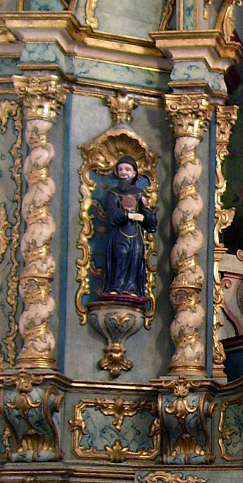 Image of Saint Francis of Paola, in principal altar of the Church Our Lady of the Rosary and the Saint Benedict, Cuiabá, Mato Grosso, Brazil.